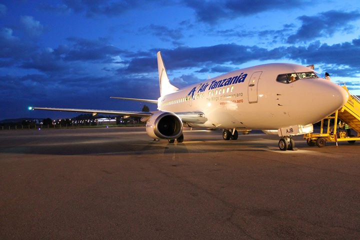 ATCL B737-500